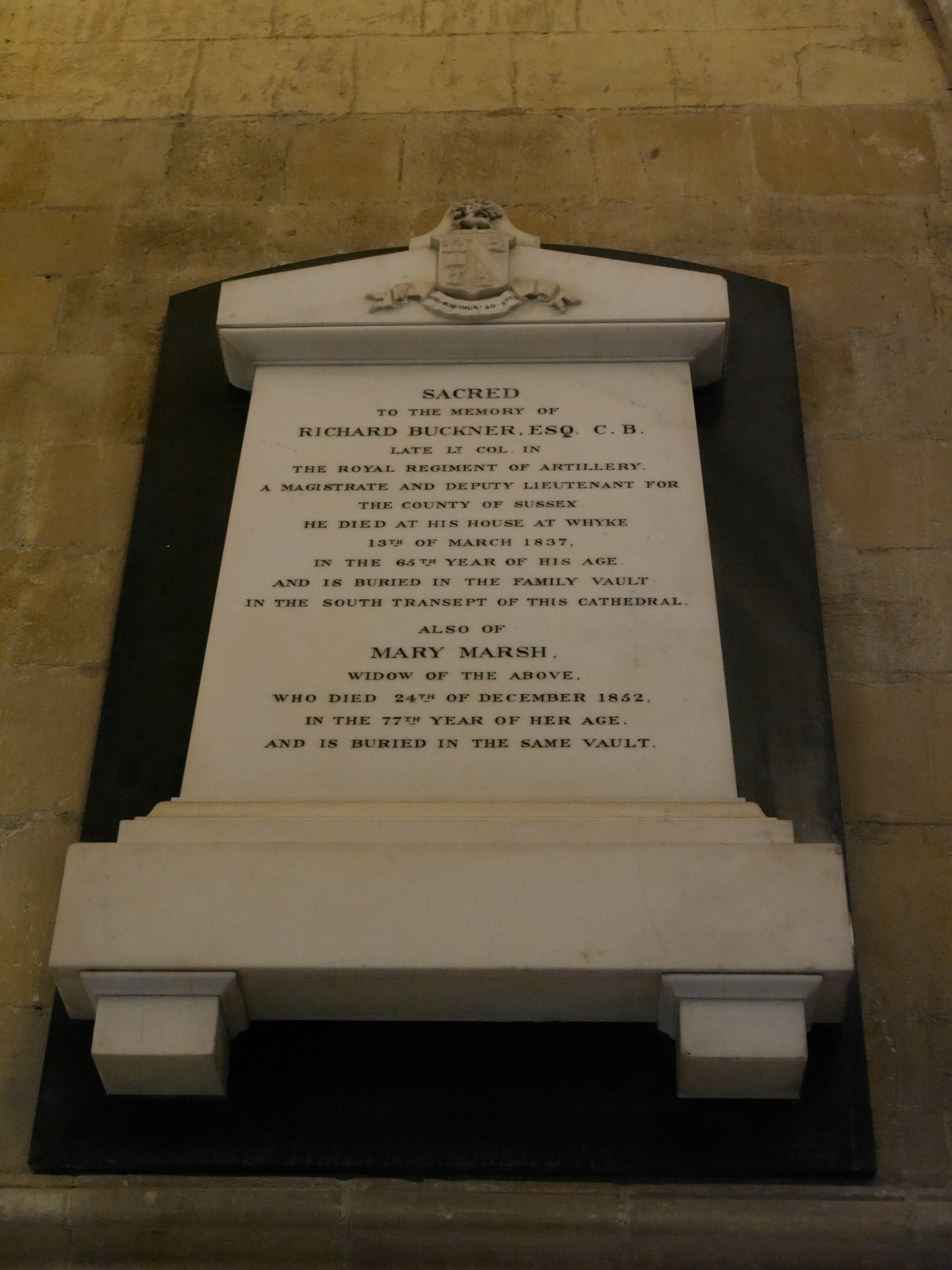 Chichester Cathedral, July 2015. Monument to Lieutenant-Colonel Richard Buckner and Mary Marsh Pierce, parents of Richard Buckner (born Woolwich, London, 25 October 1812; died 12 August 1883, a well-known portrait and genre painter who was born on 25 October at the Royal Arsenal in Woolwich, London, raised at Rumboldswhyke near Chichester where he started his career working from a studio built in his family home.